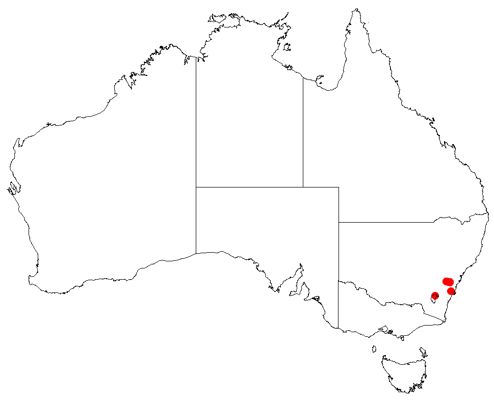 Hakea dohertyi Occurrence data downloaded from Australasian Virtual Herbarium on 22 November 2018 using